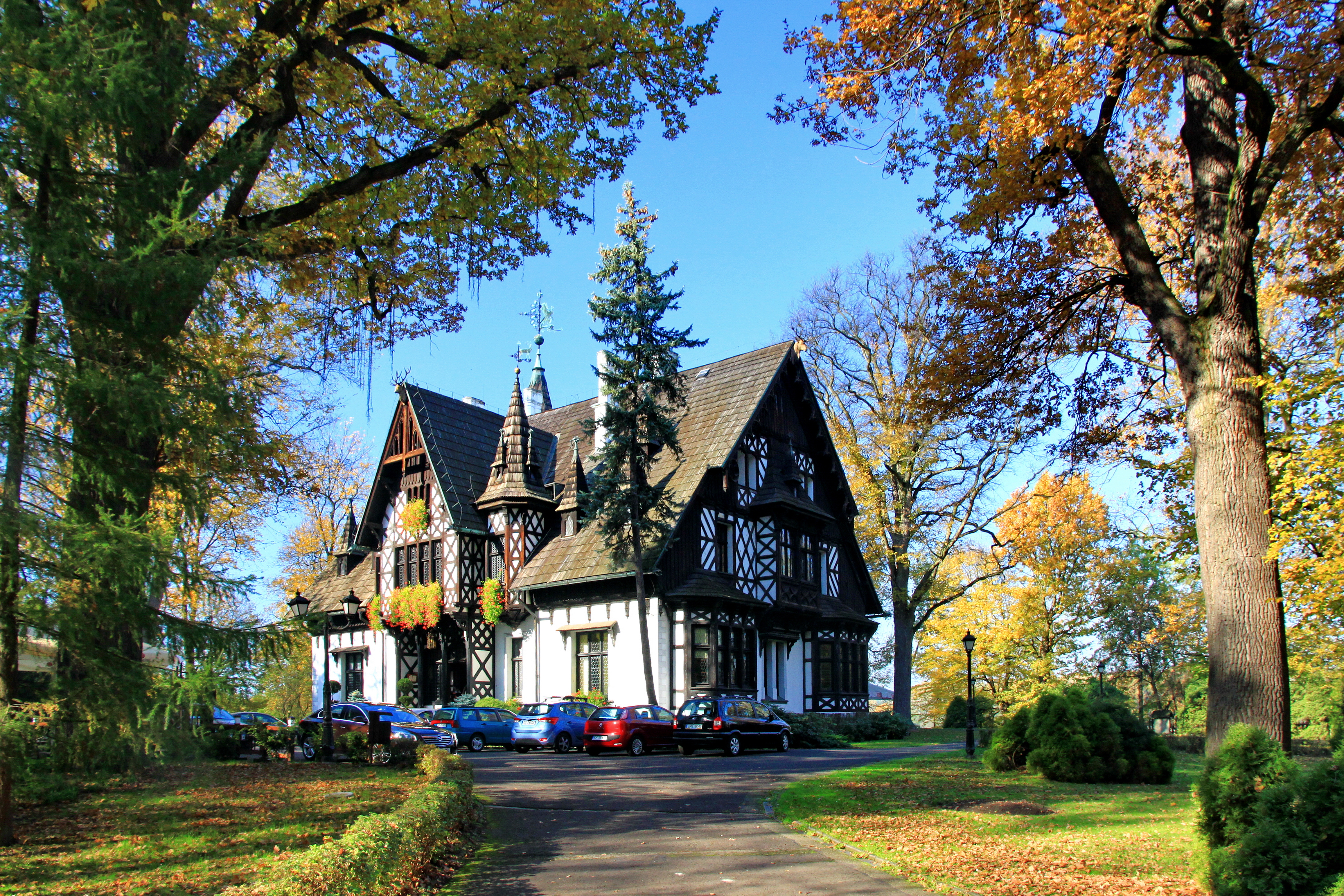 Kobiór, hunting castle, build in 1861, 1868